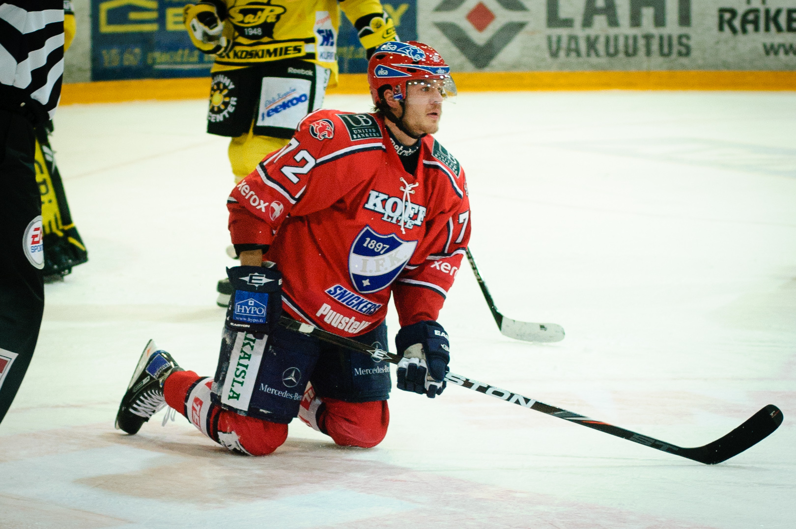 Finnish ice hockey player Siim Liivik playing for IFK Helsinki against SaiPa Lappeenranta in the Finnish SM-liiga in Lappeenranta, Finland.